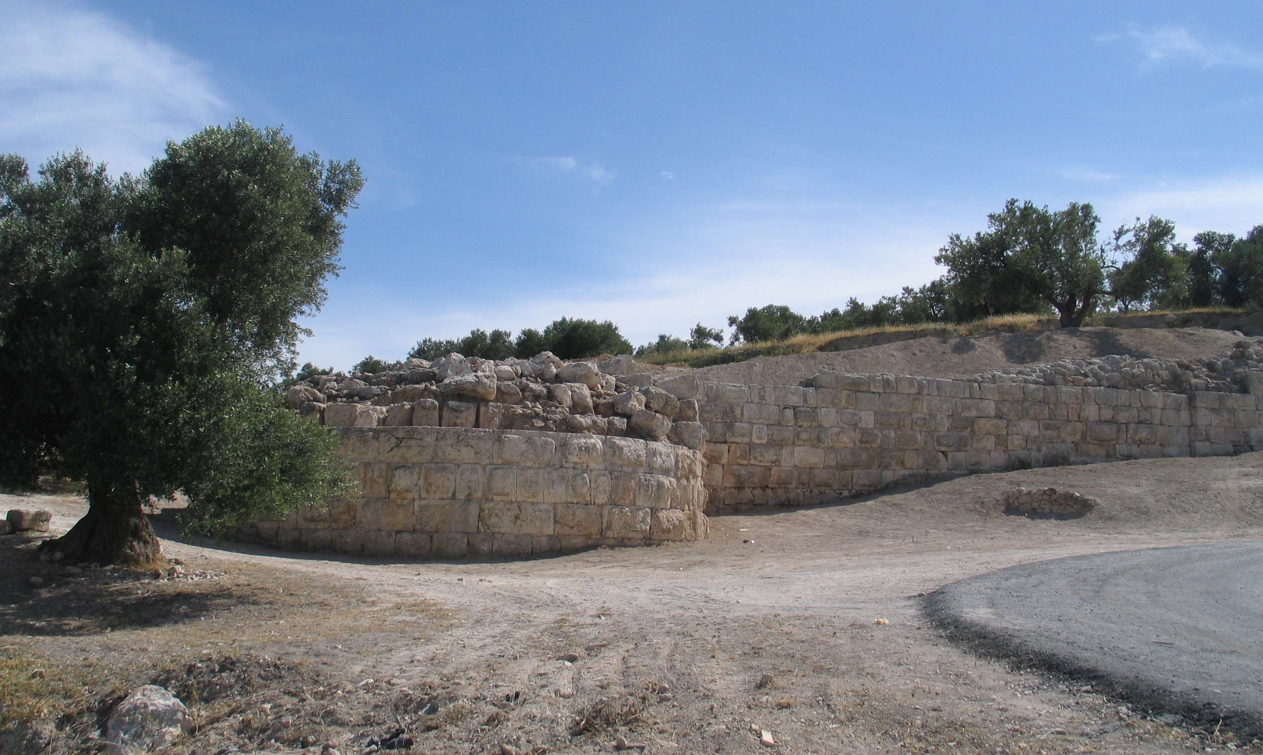 Shomron National Park (Sebastia).